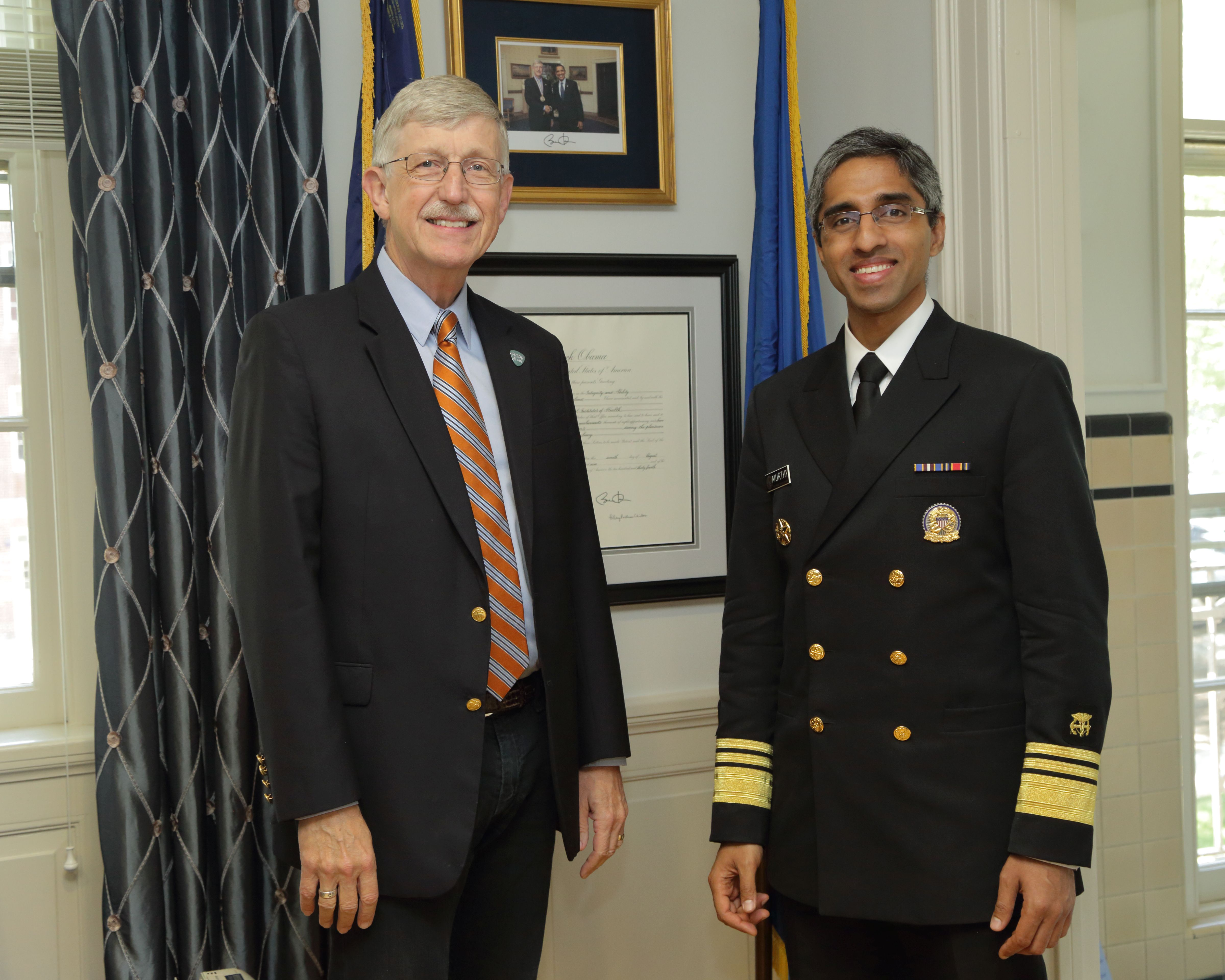 Dr. Murthy visited the NIH for the first time on July 23, meeting NIH director Dr. Francis Collins. Vice Admiral Vivek Hallegere Murthy is an American physician, a vice admiral in the Public Health Service Commissioned Corps, and the 19th Surgeon General of the United States.